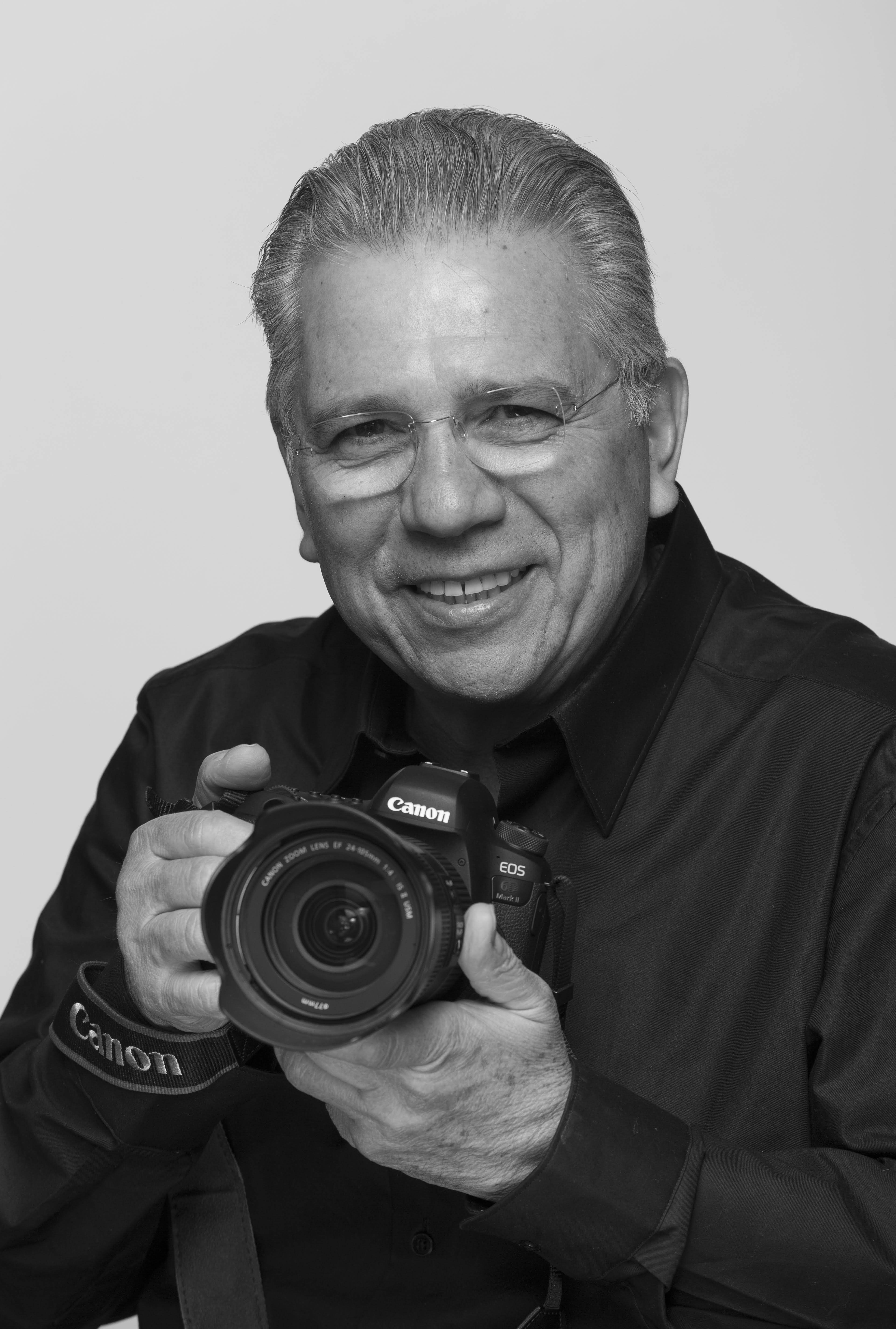 Portrait of Mexican landscape photographer Julio Rodríguez Ramos, taken by José Luis Venegas in 2018.